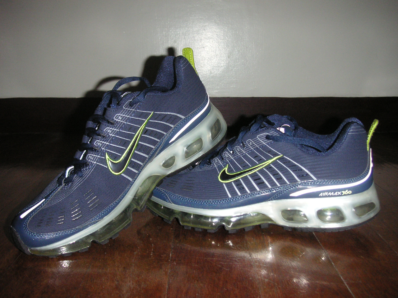 Author's own picture. Nike Air Max 360